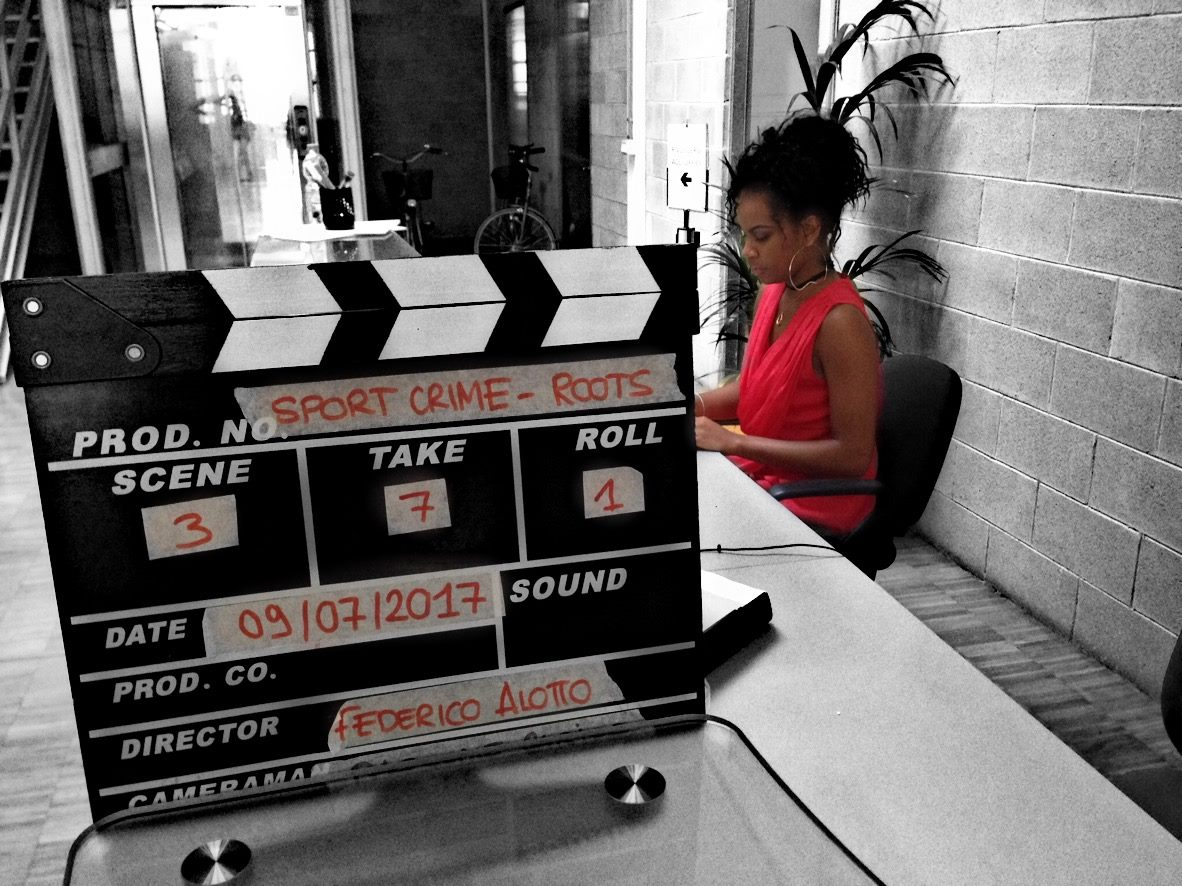 Samantha Schenini during "Roots" episode shooting